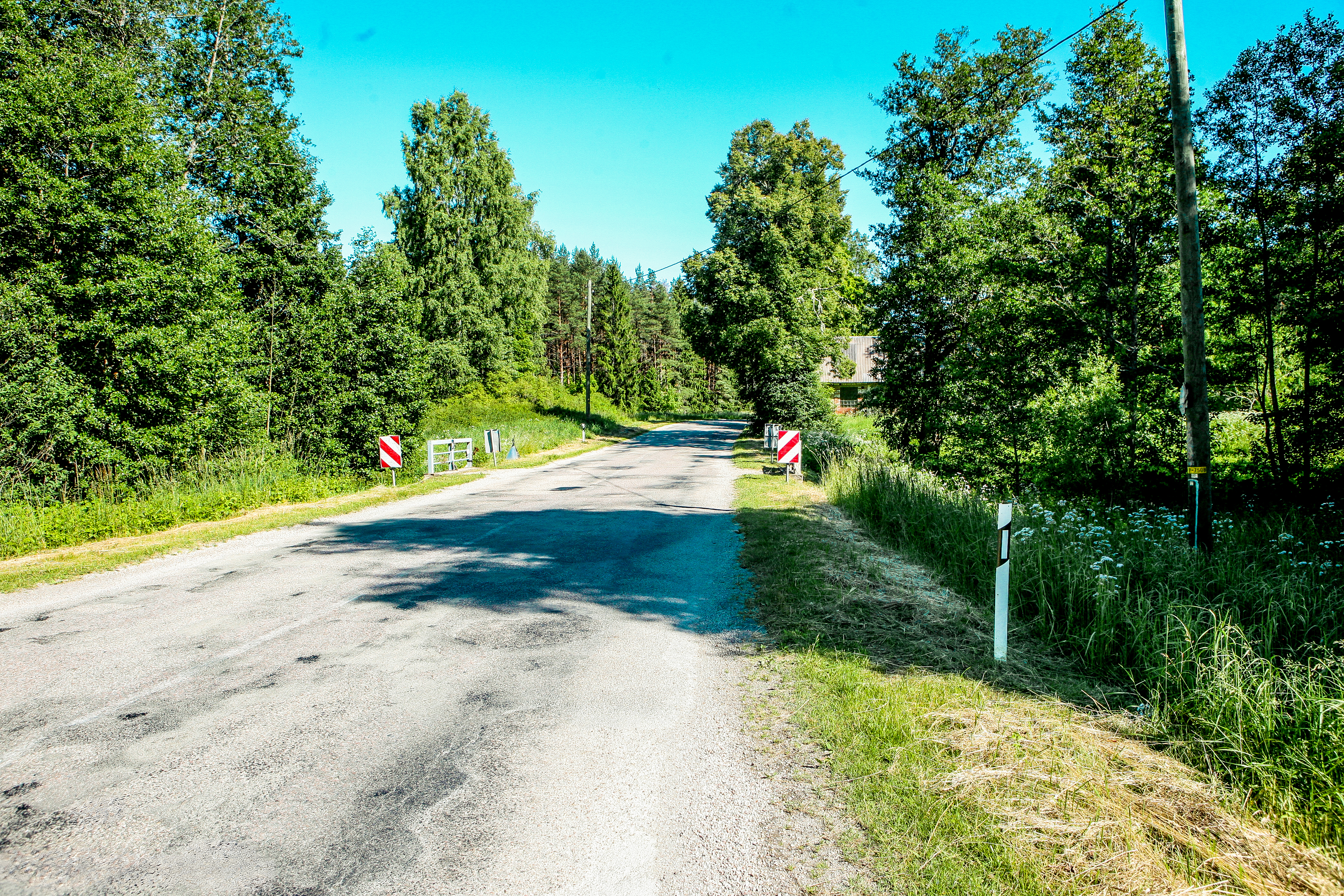 the road Sloka – Talsi